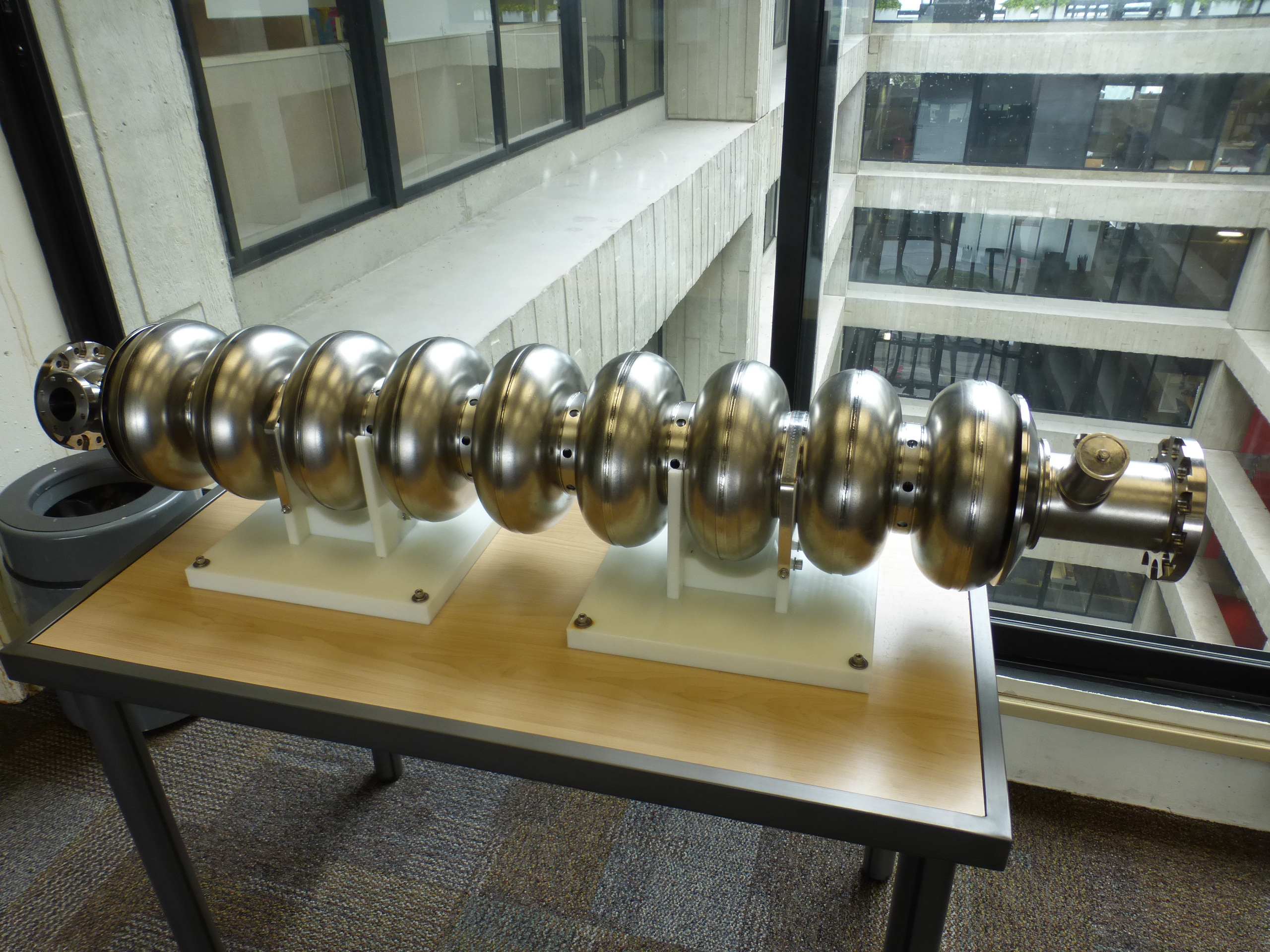 A niobium 1.3 GHz nine-cell superconducting radio frequency microwave cavity at Fermilab.